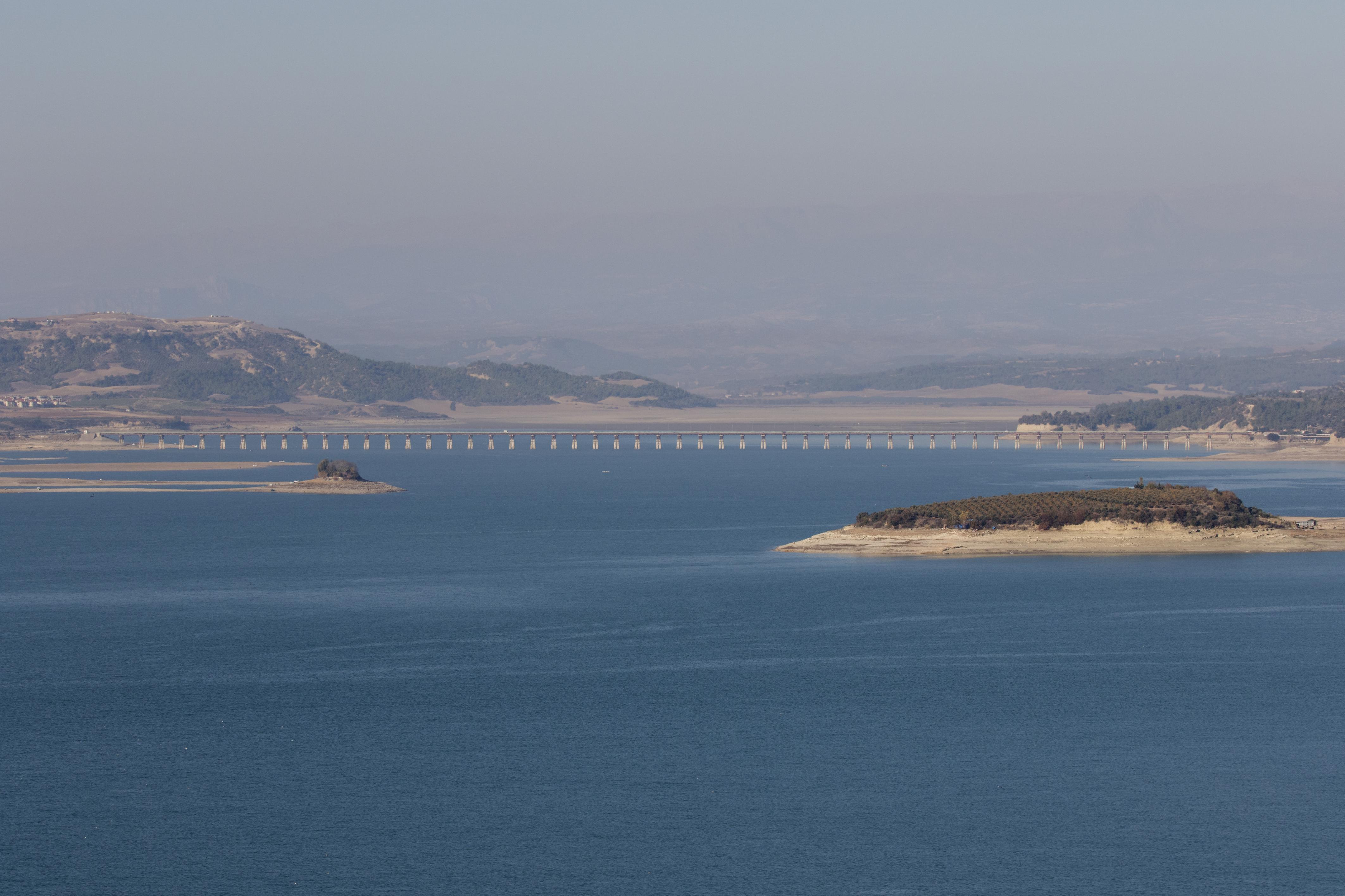 From Çukurova University Campus, a far view of the West Bridge over Seyhan Dam Lake. Çukurova - Adana, Turkey.